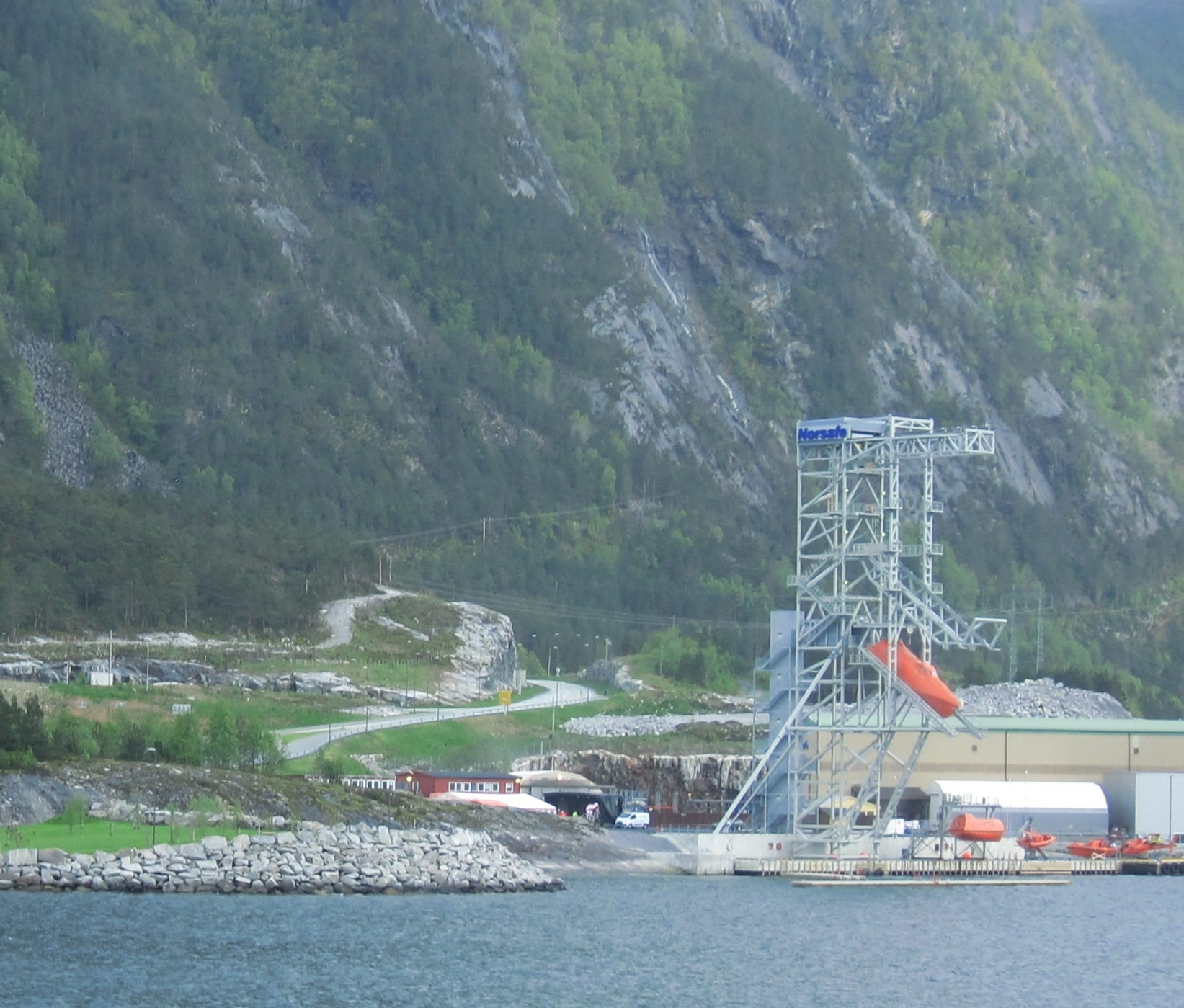 Årsnes ferry dock, Hardangerfjord. Norsafe (life boats) facilities